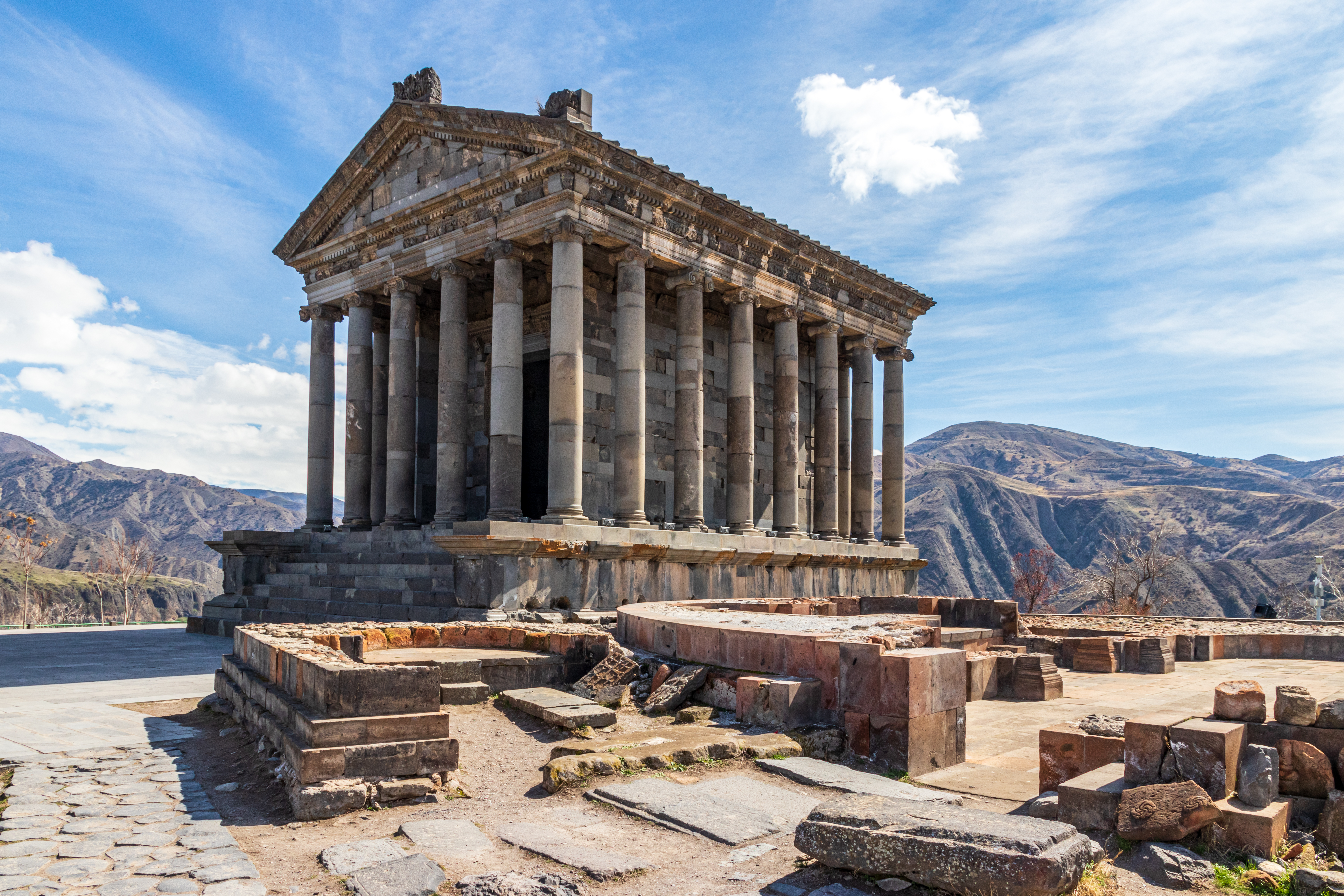 Temple of Garni. Garni, Kotayk Province, Armenia.